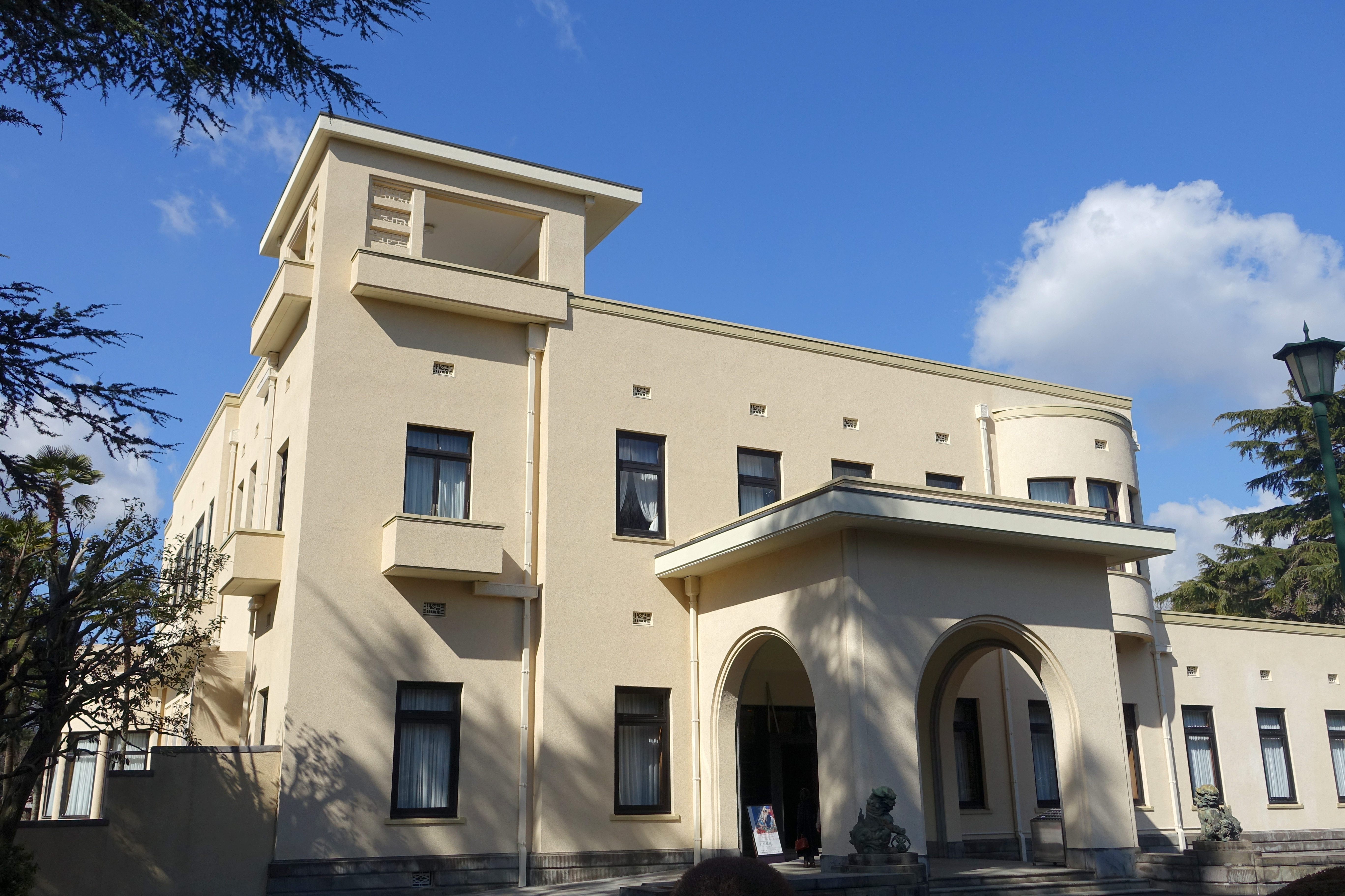 Tokyo Metropolitan Teien Art Museum ((東京都庭園美術館), 5-21-9 Shirokanedai, Minato-ku, Tokyo, Japan. The museum occupies an Art Deco building that was previously the residence of Prince Asaka Yasuhiko from 1933–47.